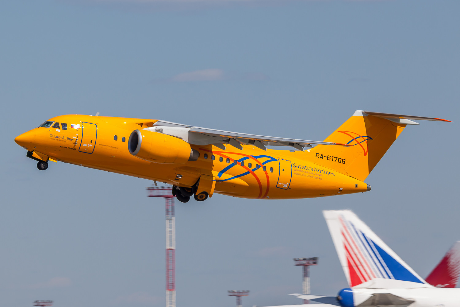 Saratov Airlines Antonov An-148 takes off at Domodedovo